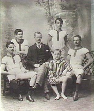 Student rowing team of the Prince Alfred College, 1891